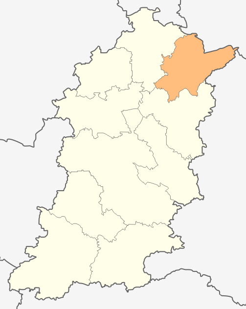 Map of Nikola Kozlevo municipality, Shumen Province